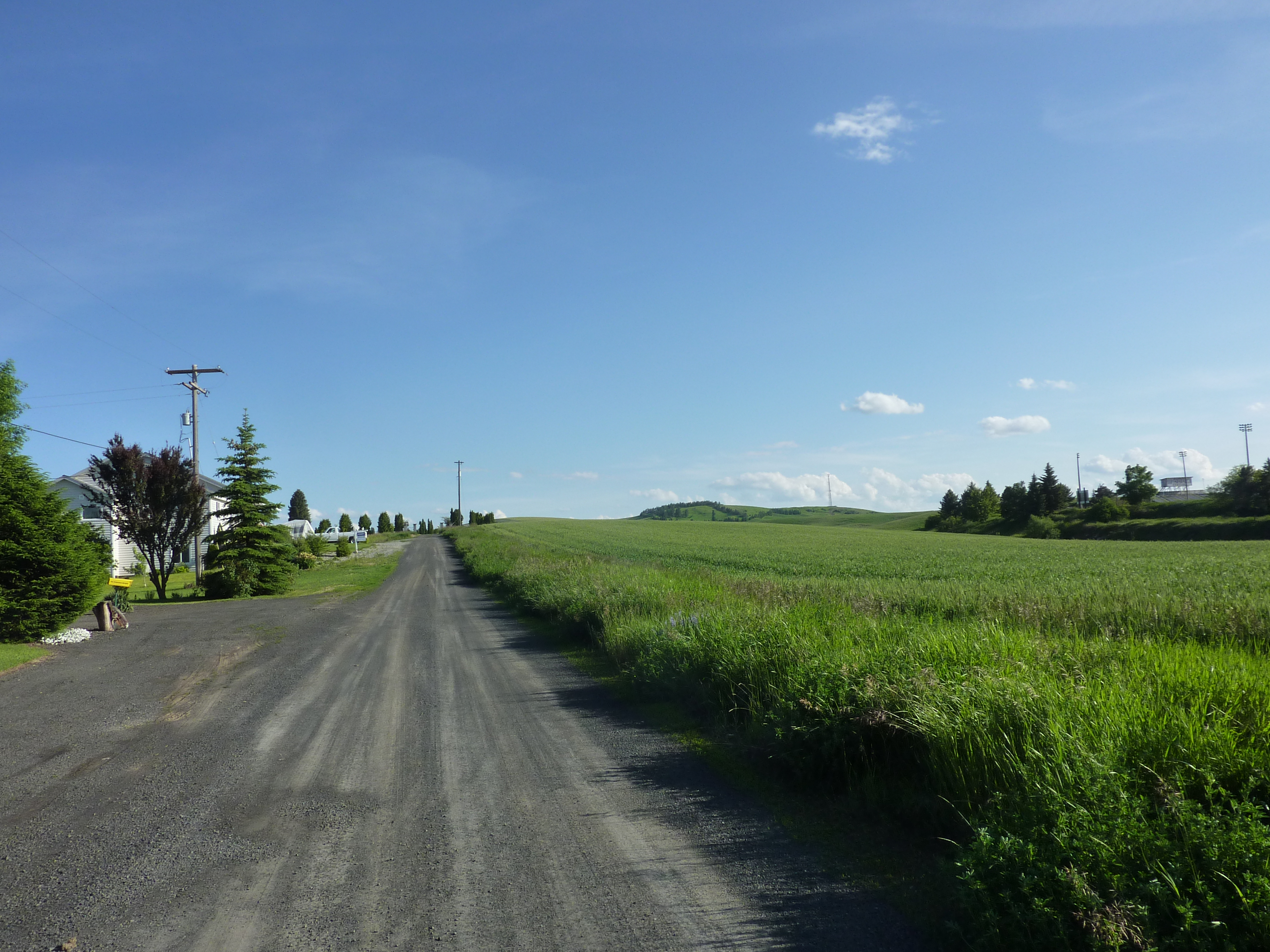 Reardan, WA